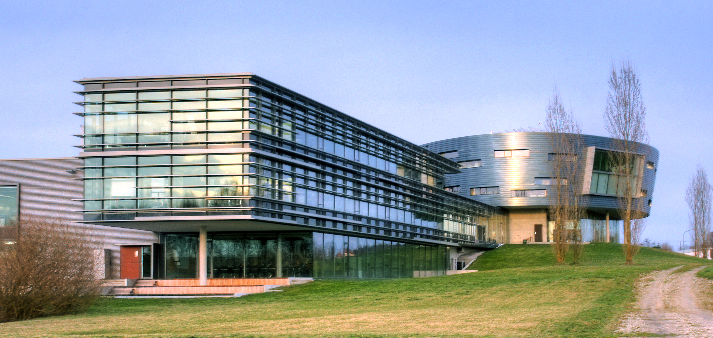 Headquarter of the German company Cancom IT Systeme